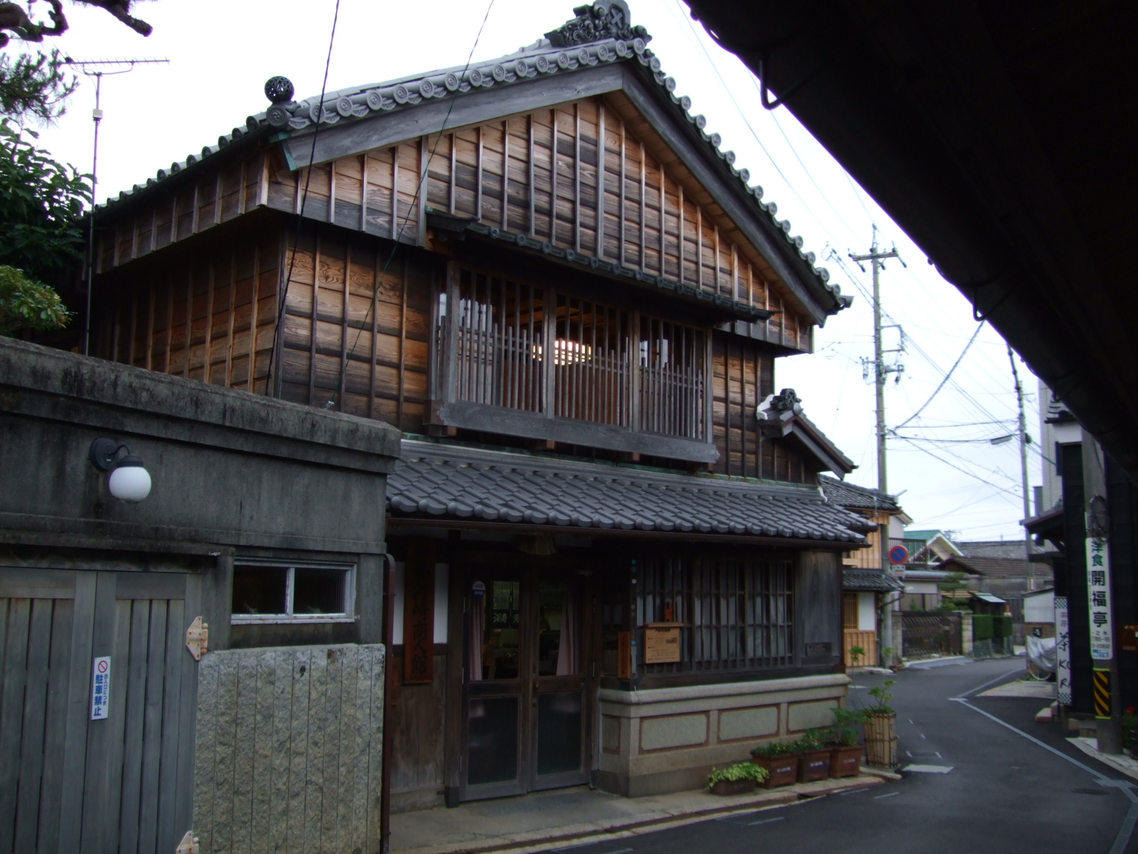 Ise-Kawasaki-Syoninkan, located in Kawasaki area, Ise City, Mie, Japan.